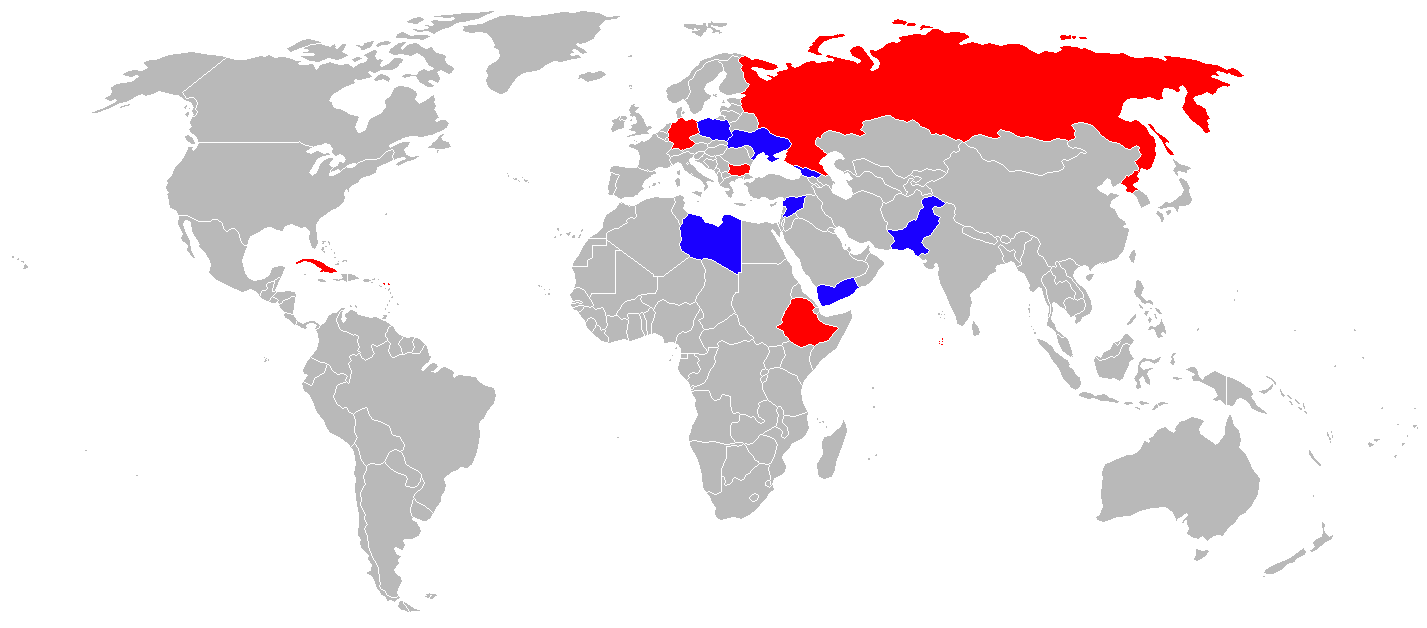 World map of Mil Mi-14 operators